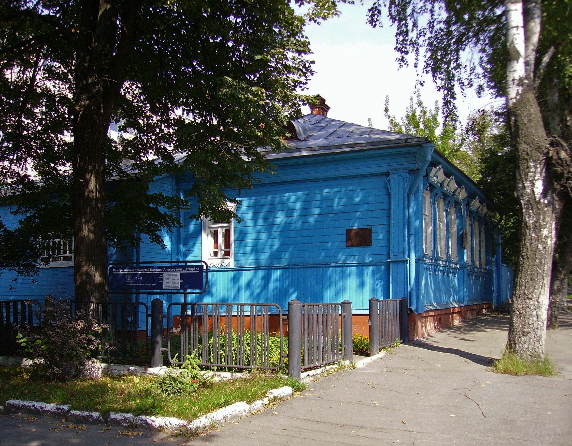 Kovrov. Vasily Degtyaryov House Museum